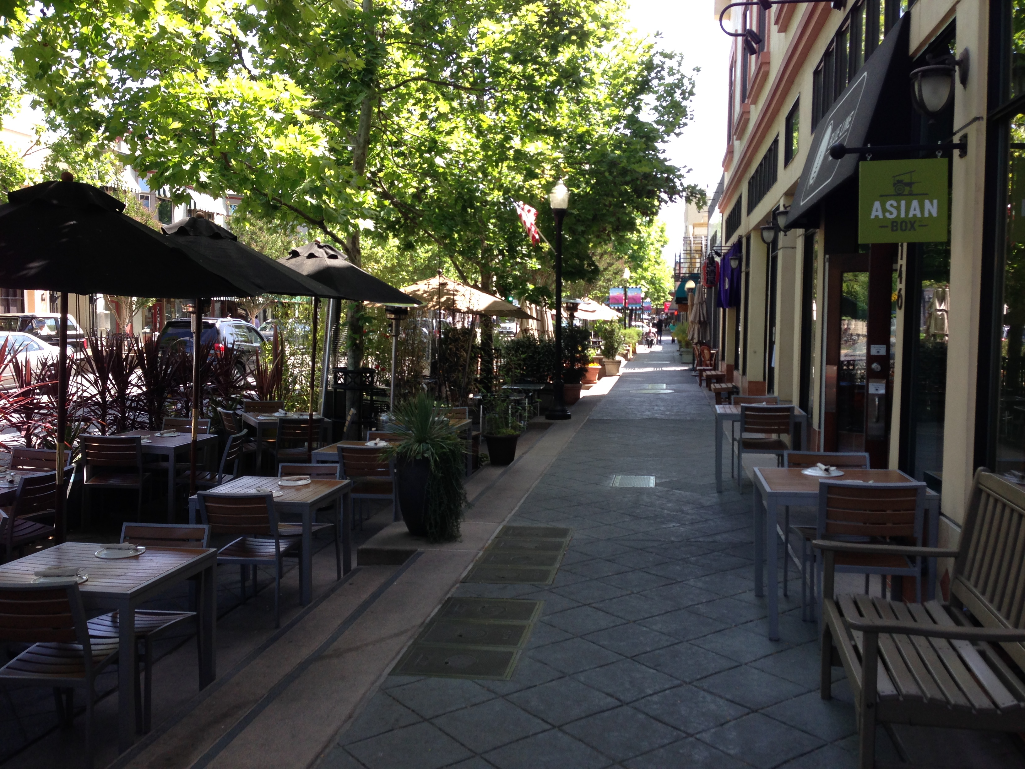 Main shopping and dining street of Mountain View, California